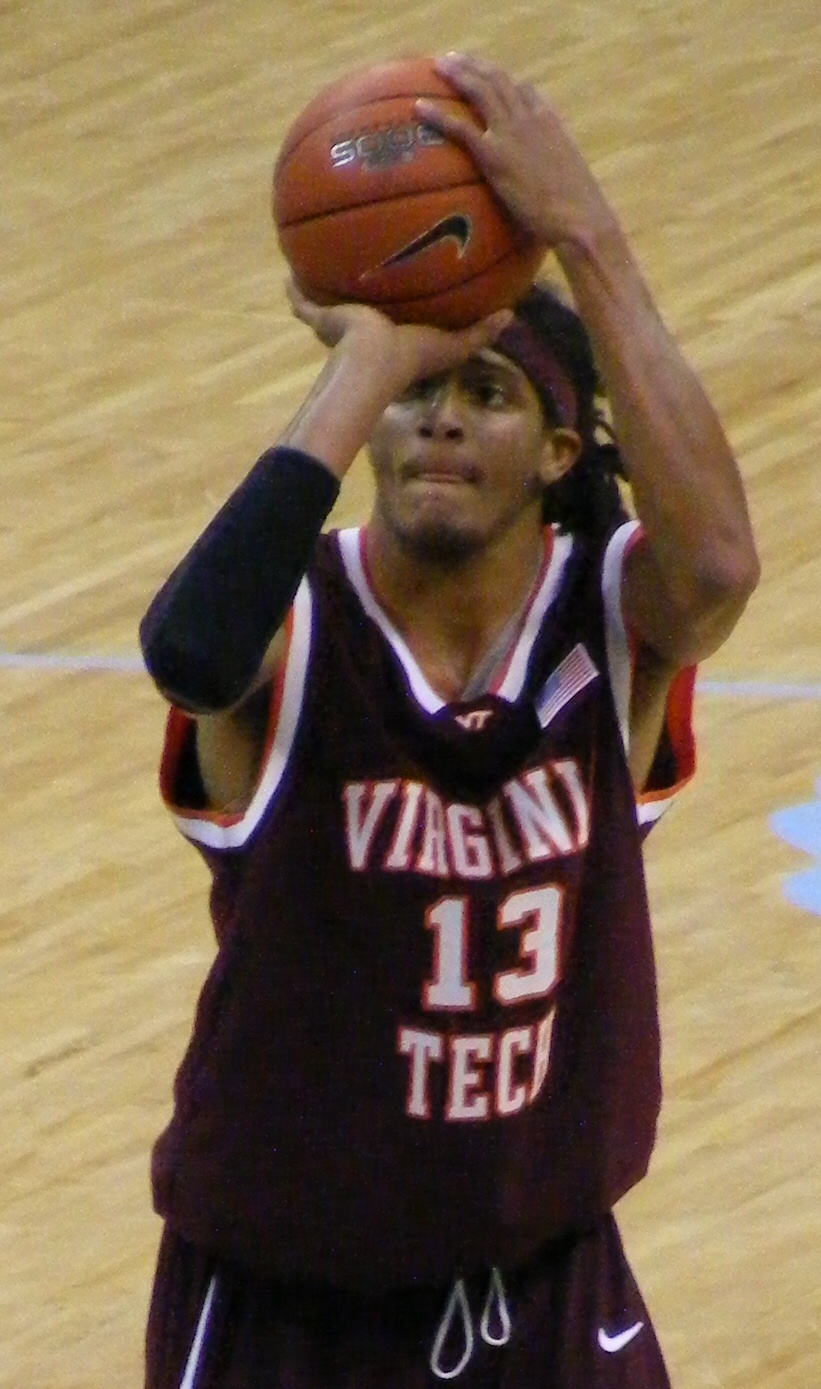 Virginia Tech's Deron Washington (en) takes a free throw for the Hokies